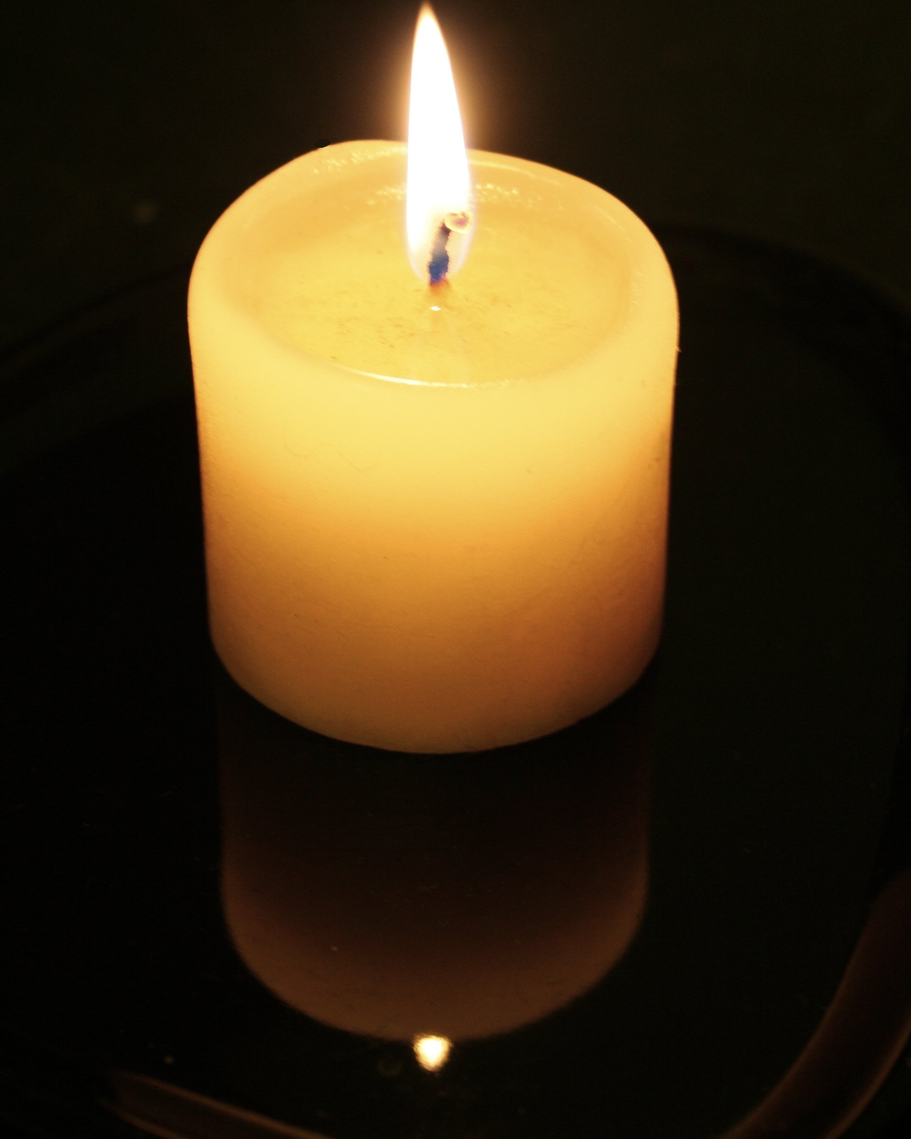 Photograph of a candle